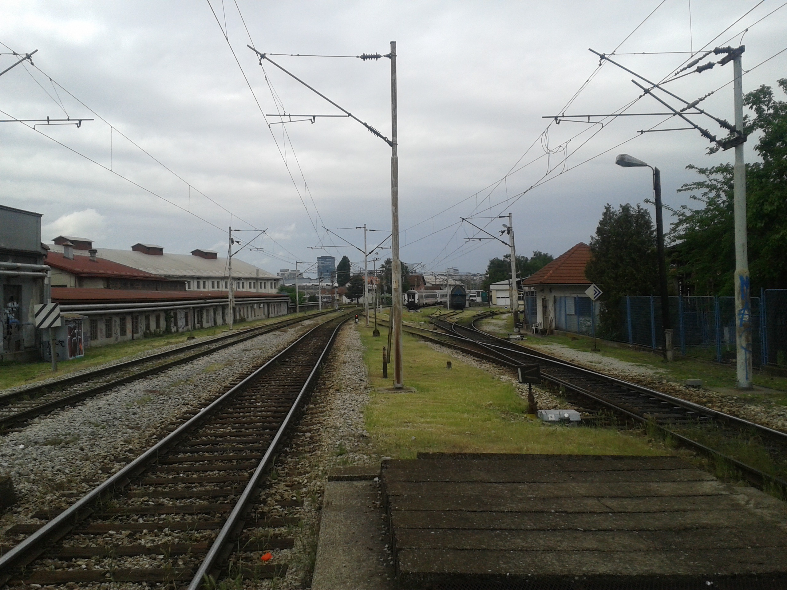 View to the west from the overpass Strojarska street. Location rail disaster of 1974 years is about 300 meters away, another 150 m behind the wagons in the middle.